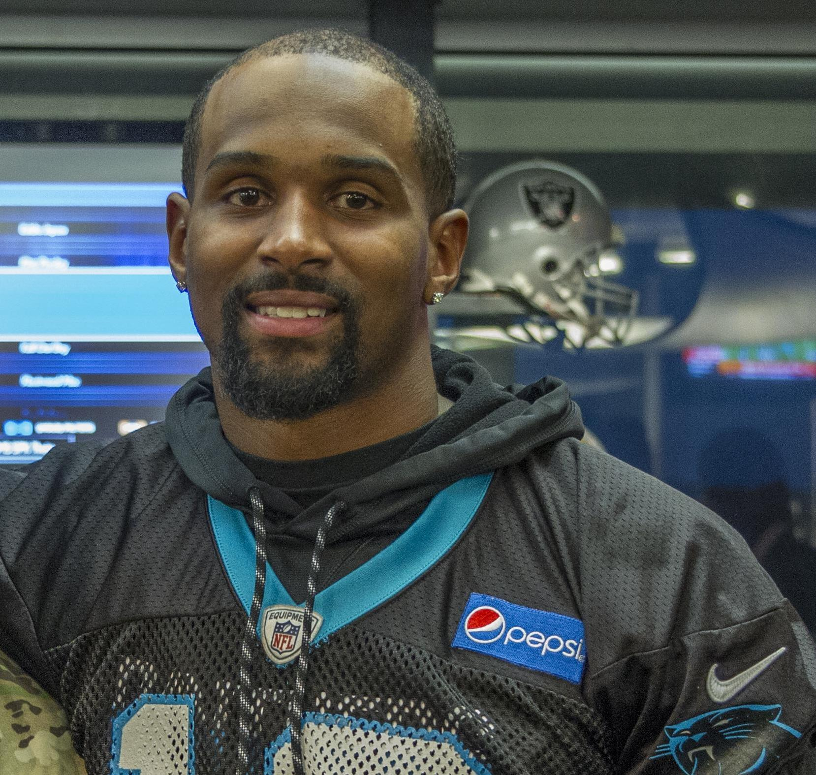 Charlotte - Capt. Jerome Russell, Operations Officer, with the 108th Training Command (Initial Entry Training) hangs out with Corey "Philly" Brown, a Wide Receiver for the Carolina Panthers, during the Pro vs. GI Joe video game challege in Charlotte, N.C., Nov. 7, 2016.